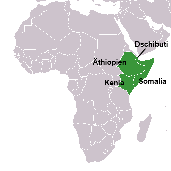 Modified from Africa-countries-horn.png for the 2006 Horn of Africa food crisis category:2006 category:Africa category:Maps